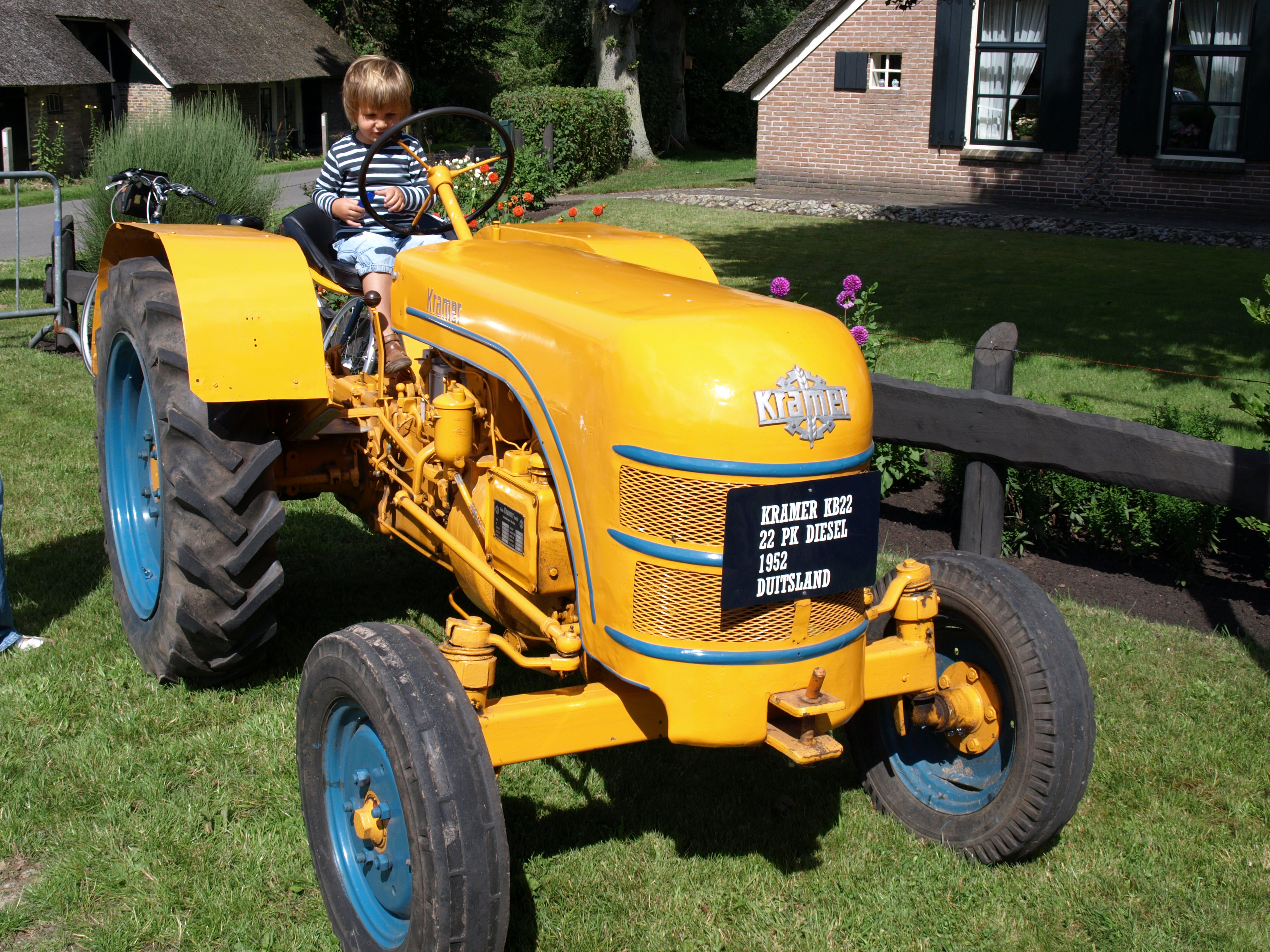 Kramer KB22 tractor, photographed at a show in the Dutch province Drenthe.